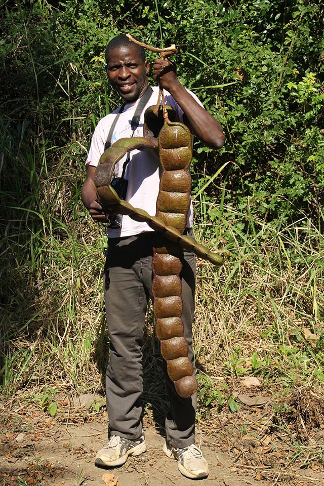 Entada rheedii Spreng. - Mozambique - pod